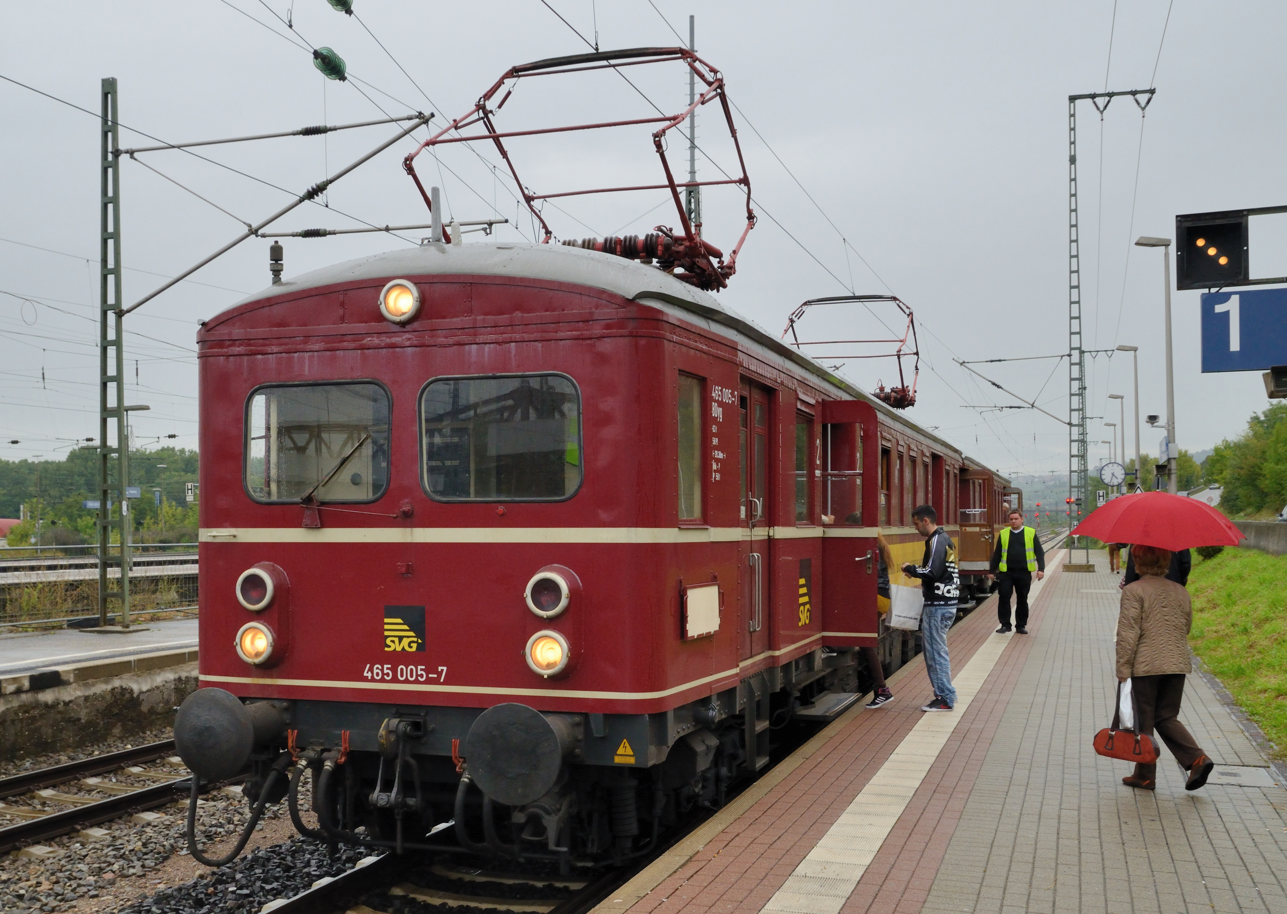 Electric motor coach DRG Class ET 65 at Weil am Rhein train station.